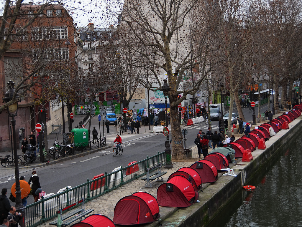 These tents were mounted by an association wanting to make lodging problems a lead news.Tents along the Canal St Martin (Paris)